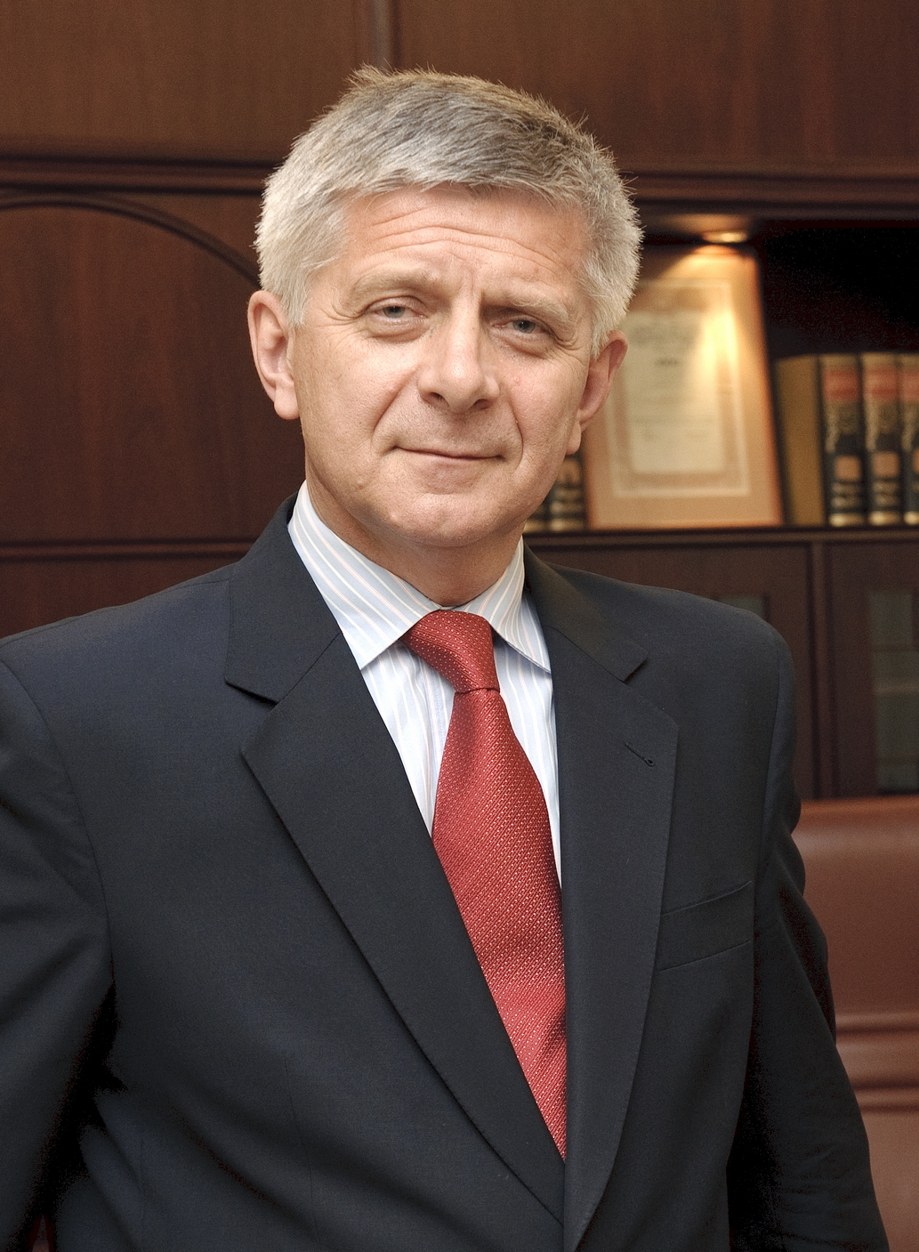 Marek Belka, Polish professor of Economics, a former Prime Minister and Finance Minister of Poland, former Director of the International Monetary Fund's (IMF) European Department and current Head of National Bank of Poland.